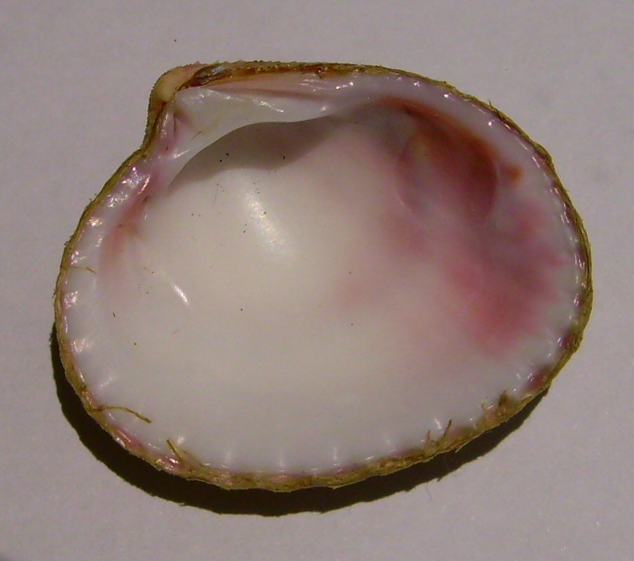 Purpurocardia purpurata (inside) dredged from north of Pakiri, New Zealand.